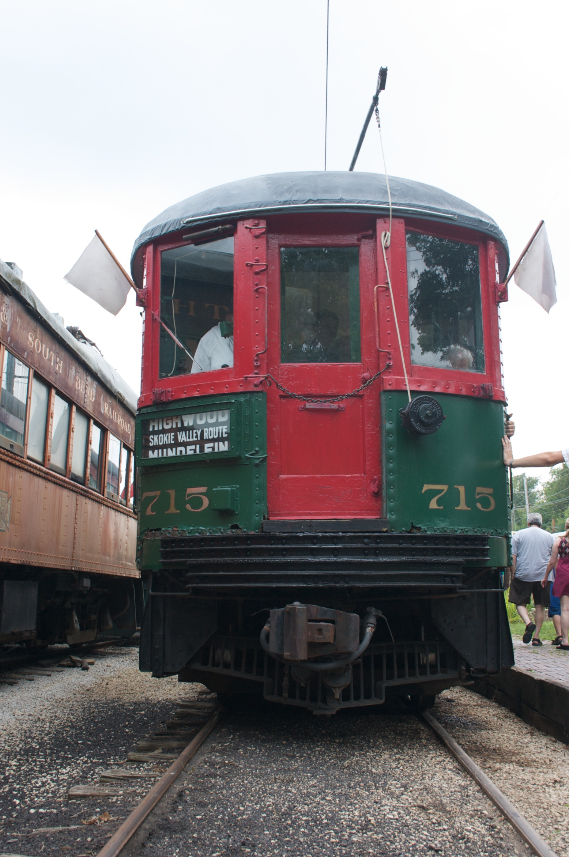 North Shore 715 Unloads @ Fox River Trolley Museum